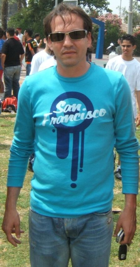 Eyal Berkovic, former Israeli football player, played in Britain and Israel, 2005 - אייל ברקוביץ' in Hebrew